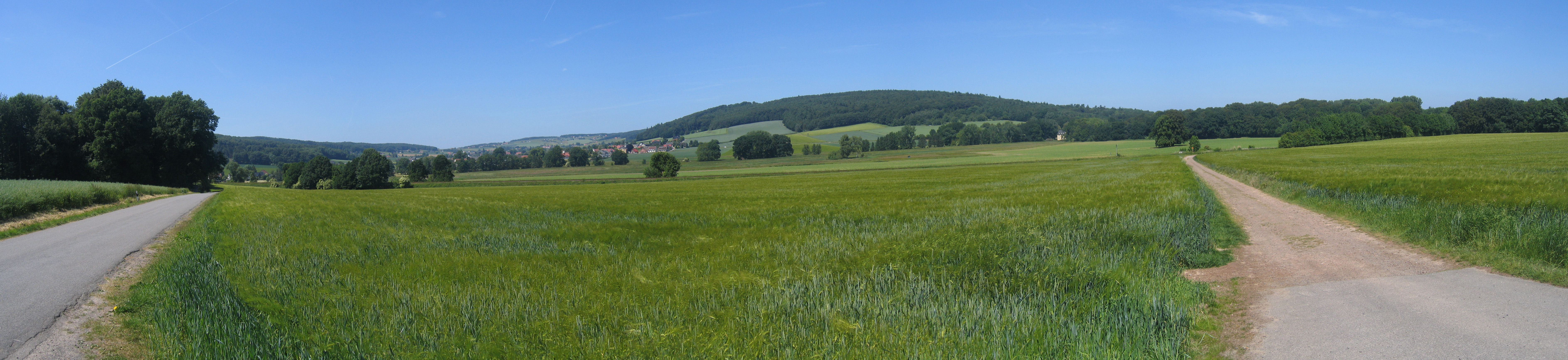 Limberg mountain in Preußisch Oldendorf, District of Minden-Lübbecke, North Rhine-Westphalia, Germany.